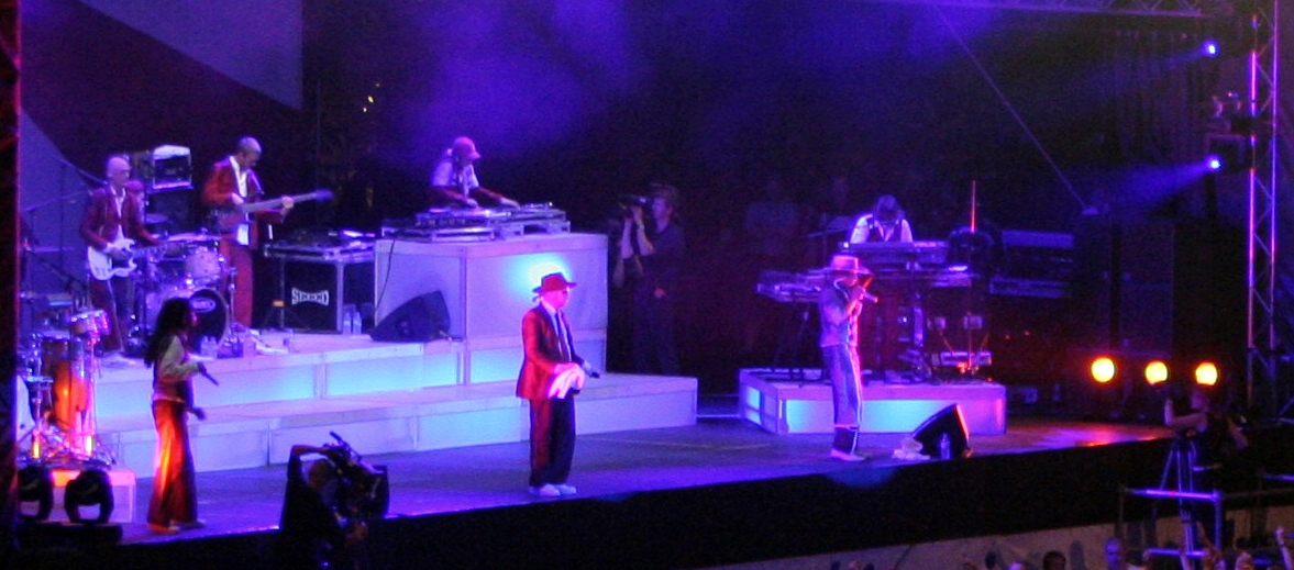 Seeed live in concert in Karlsruhe, Germany (2006)